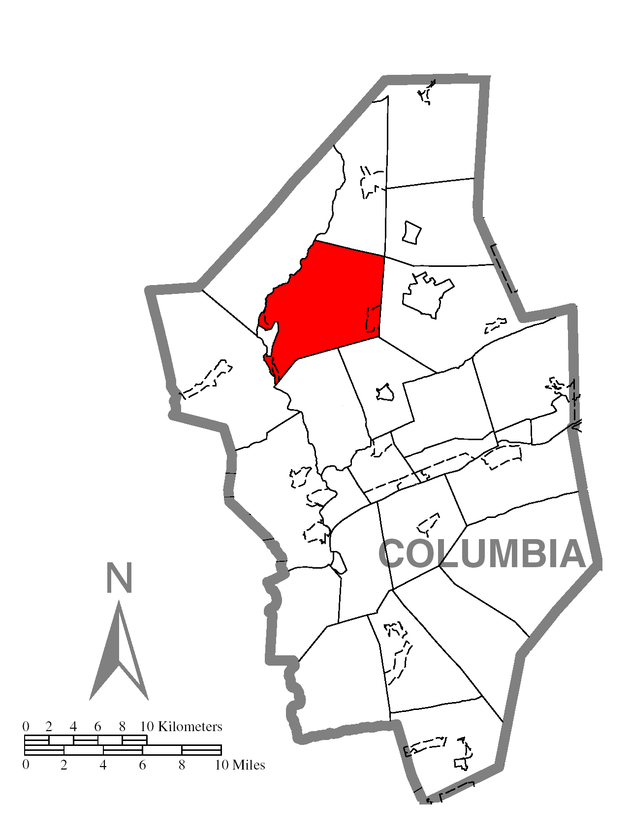 A map of Columbia County showing Greenwood Township, Pennsylvania (alternate) highlighted on the map.